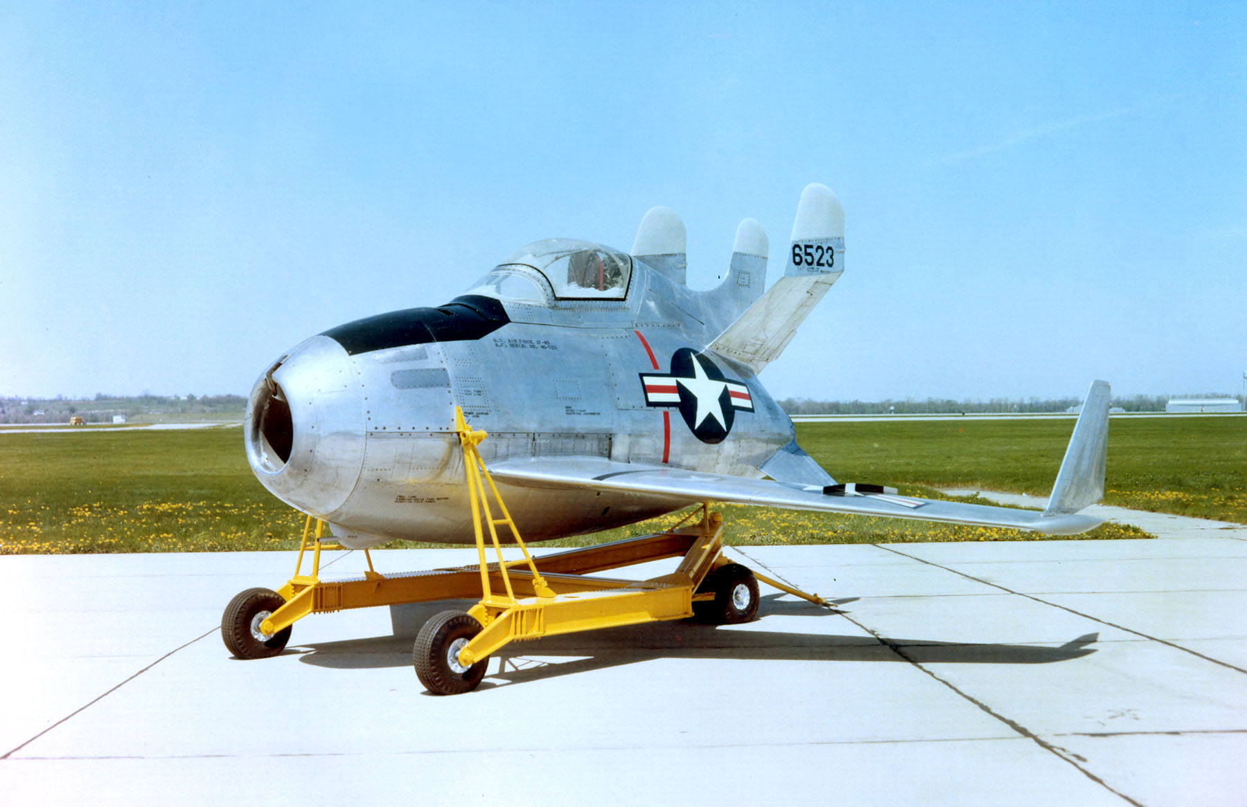 McDonnell XF-85 Goblin